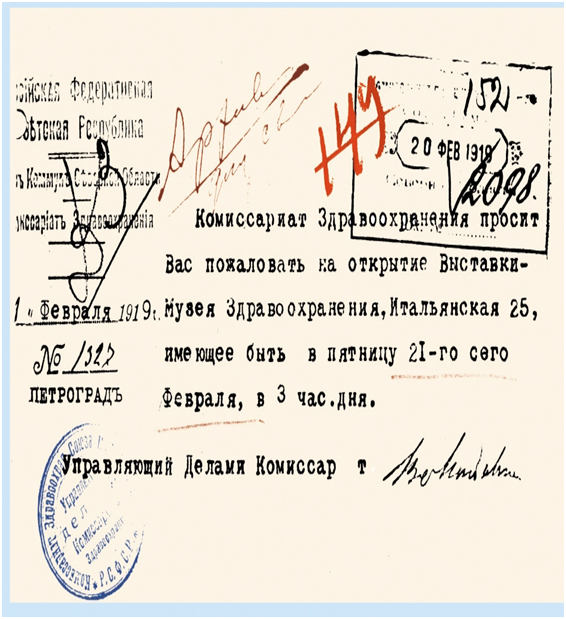 Official application for the exhibition opening